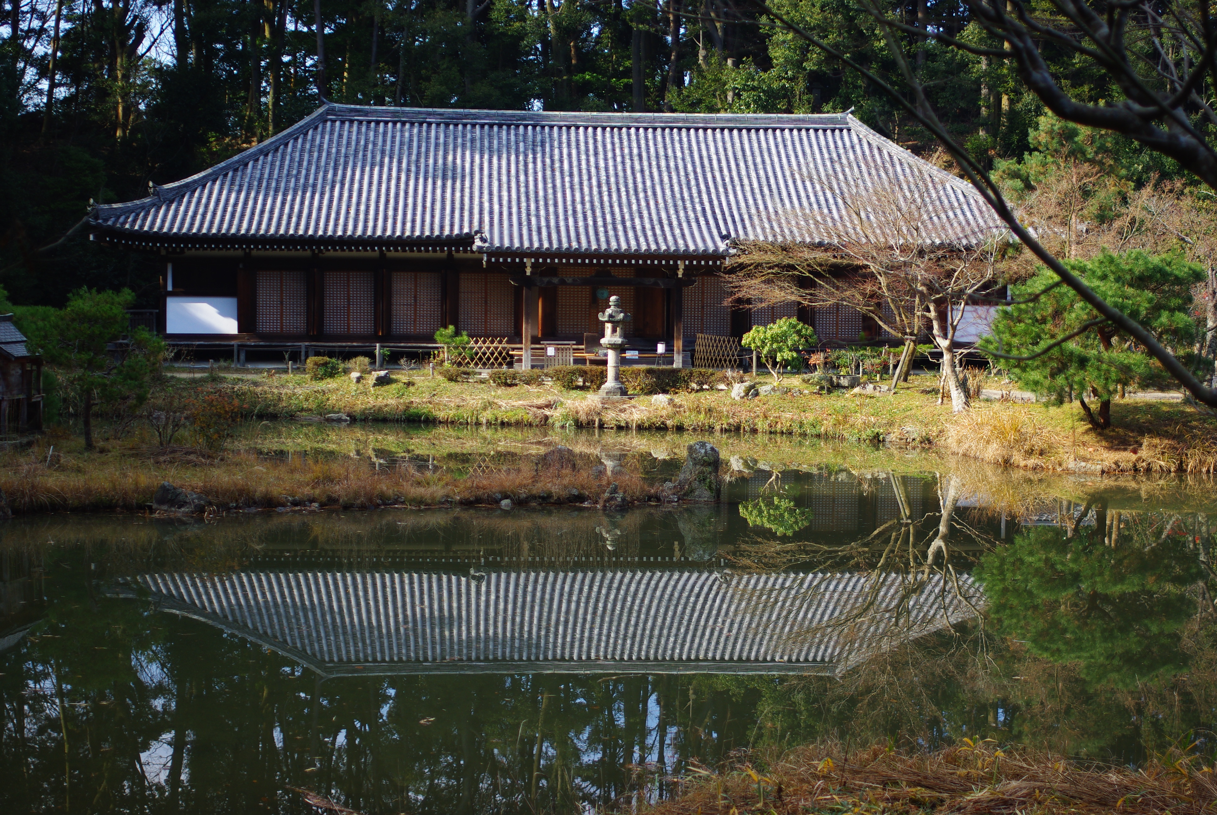 Unknown